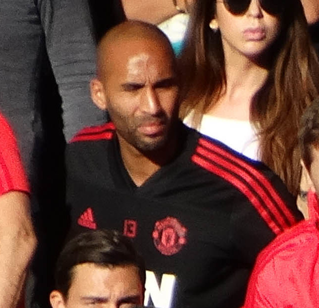 Lee Grant on 20 October 2018